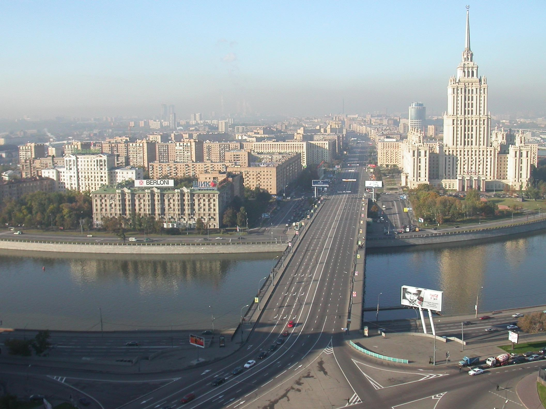 Kutuzovsky Prospekt in the morning in Moscow, Russia.